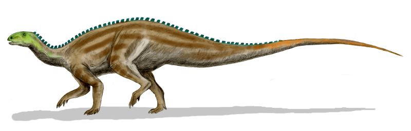 Tenontosaurus tilletti, an ornithopod from the Early Cretaceous of North America, pencil drawing